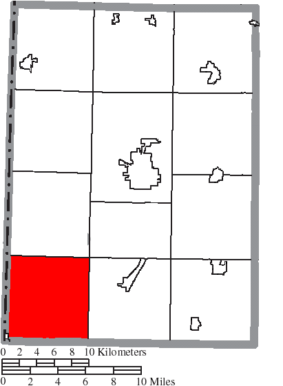 Map of the municipal and township boundaries of Preble County, Ohio, United States, as of the 2000 census, with the location of Israel Township highlighted. Township borders are shown only in unincorporated areas in order to differentiate incorporated and unincorporated areas more clearly.